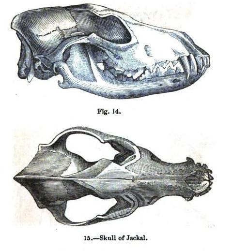 An illustration of a golden jackal skull